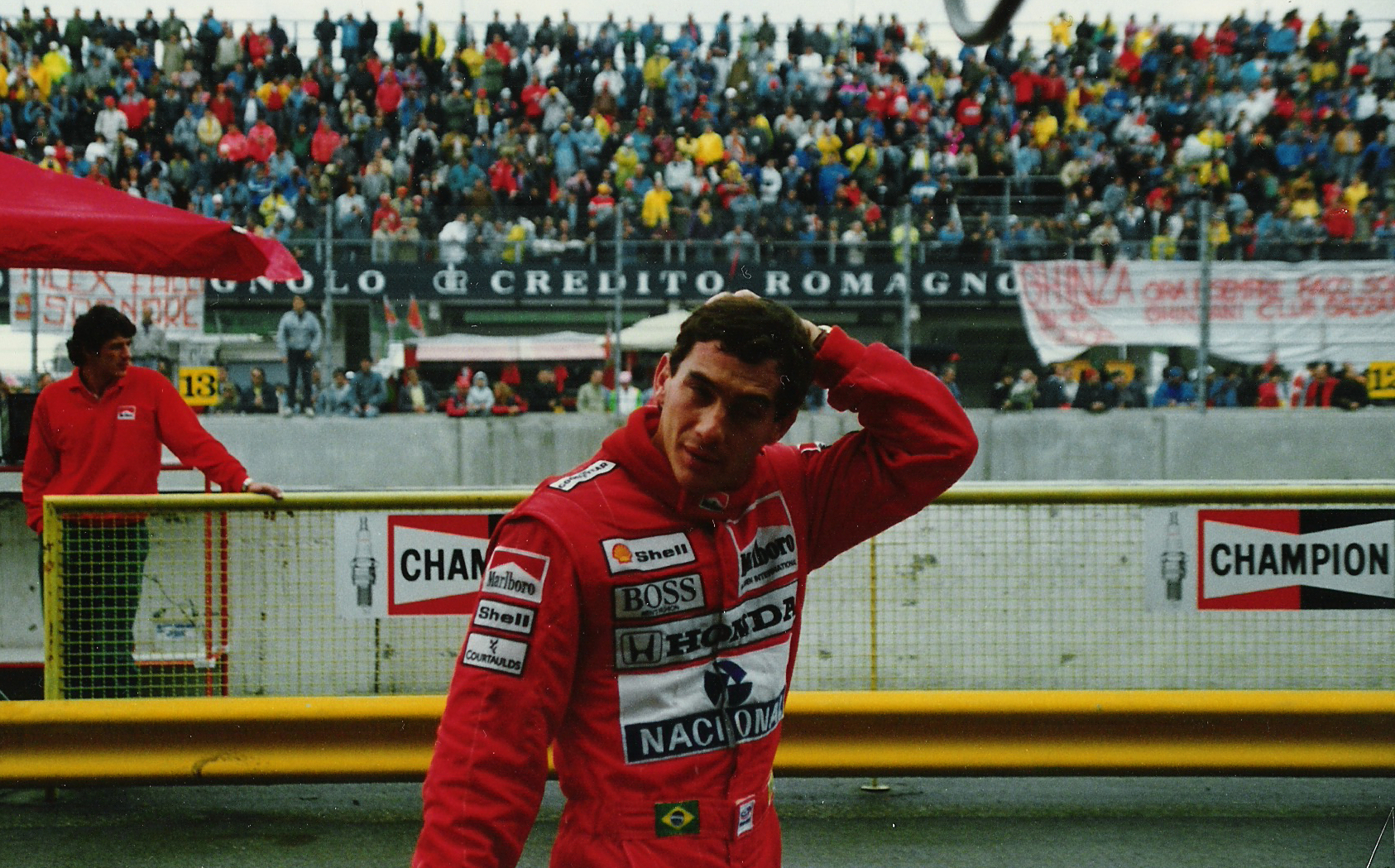 Ayrton Senna at San Marino/Imola Grand Prix in 1989.